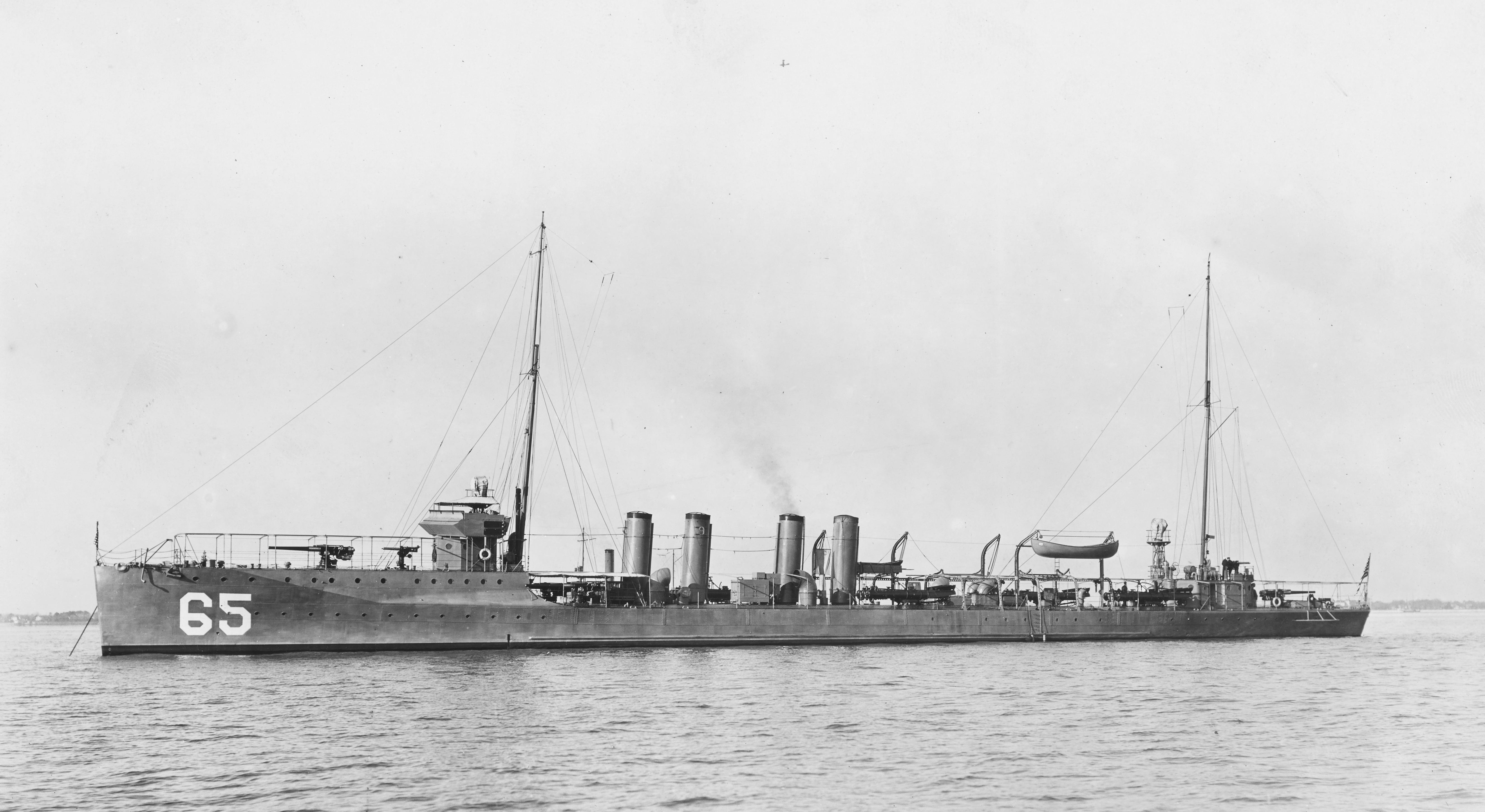 The U.S. Navy destroyer USS Davis (DD-65) on 10 December 1916.